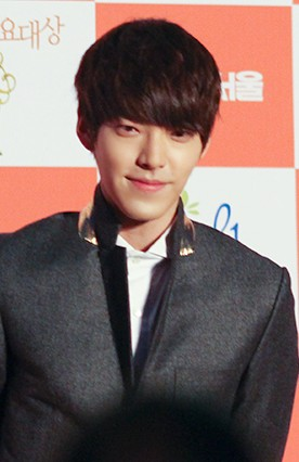 Kim Woo-bin on Seoul Music Awards Red Carpet, 31 January 2013